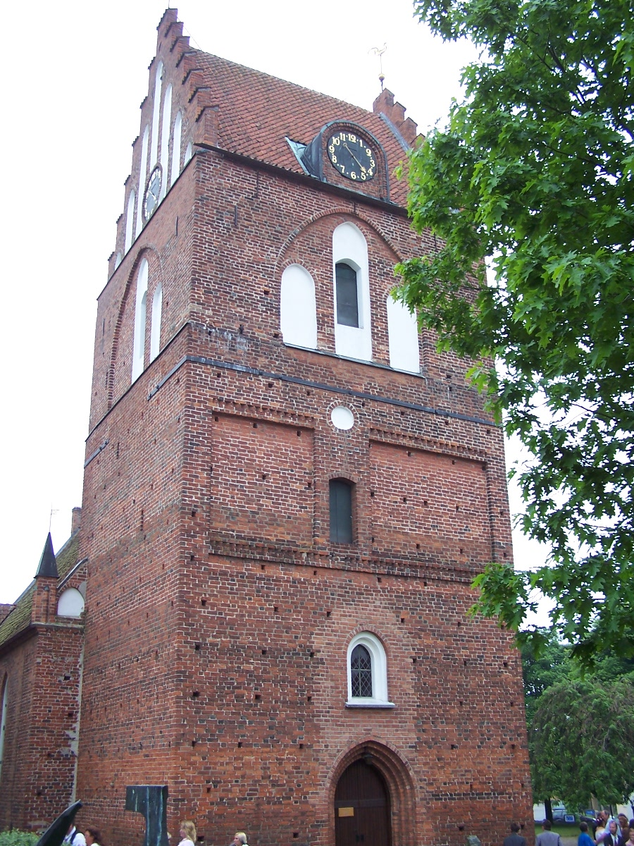 Sankt Nicolai church, Sölvesborg.